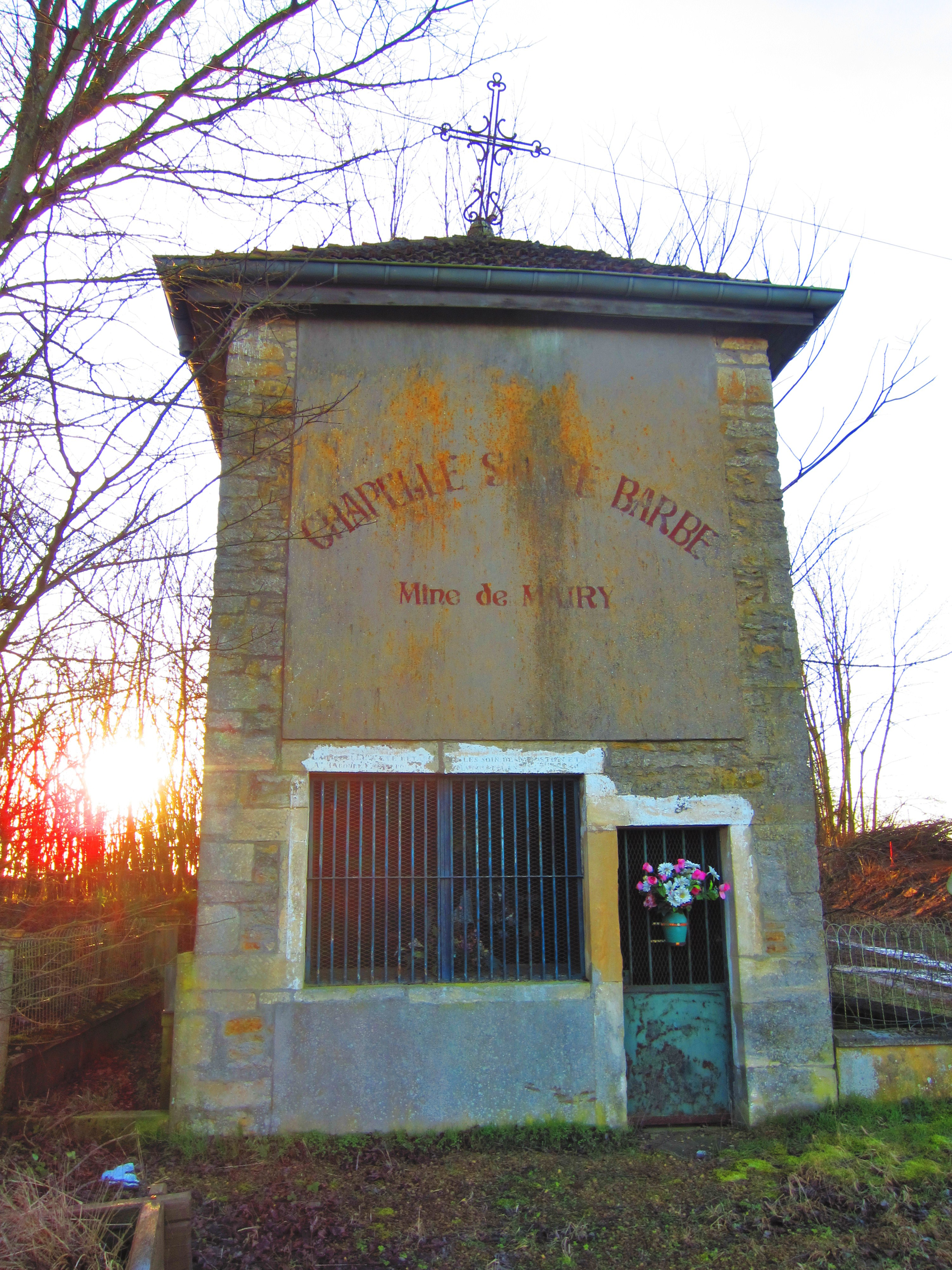 Mainville chapel ste Barbe